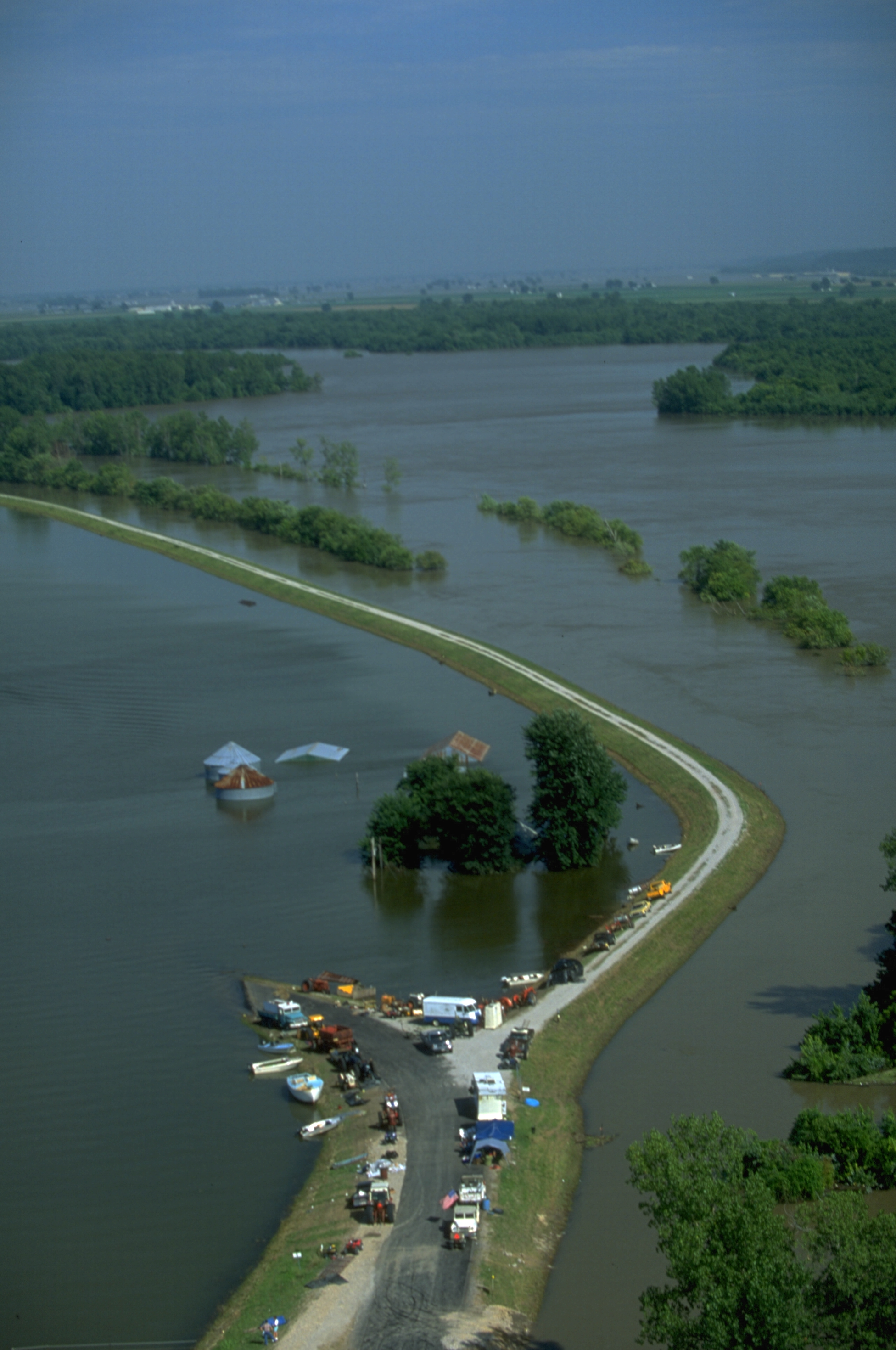 Perryville, MO, July 1993 -- An aerial view of floodwaters showing the extent of the damage wreaked by the disaster. A total of 534 counties in nine states were declared for federal disaster aid. As a result of the floods, 168,340 people registered for federal assistance. Photo by Andrea Booher/FEMA Photo